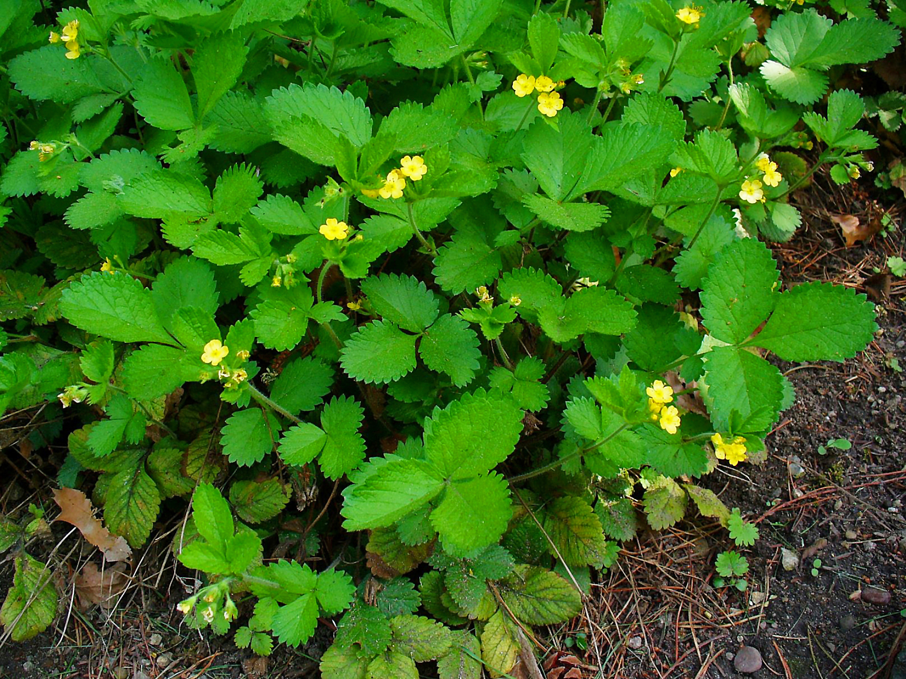 Bastard Agrimony, habitus; Botanical Garden KIT, Karlsruhe, Germany.